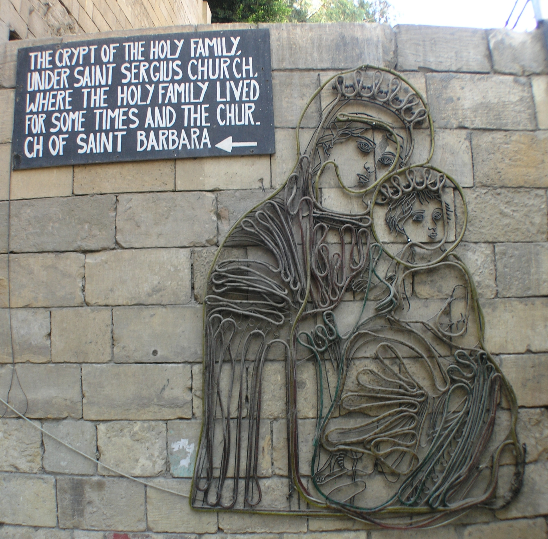 Cairo - Coptic area - artwork near main entrance